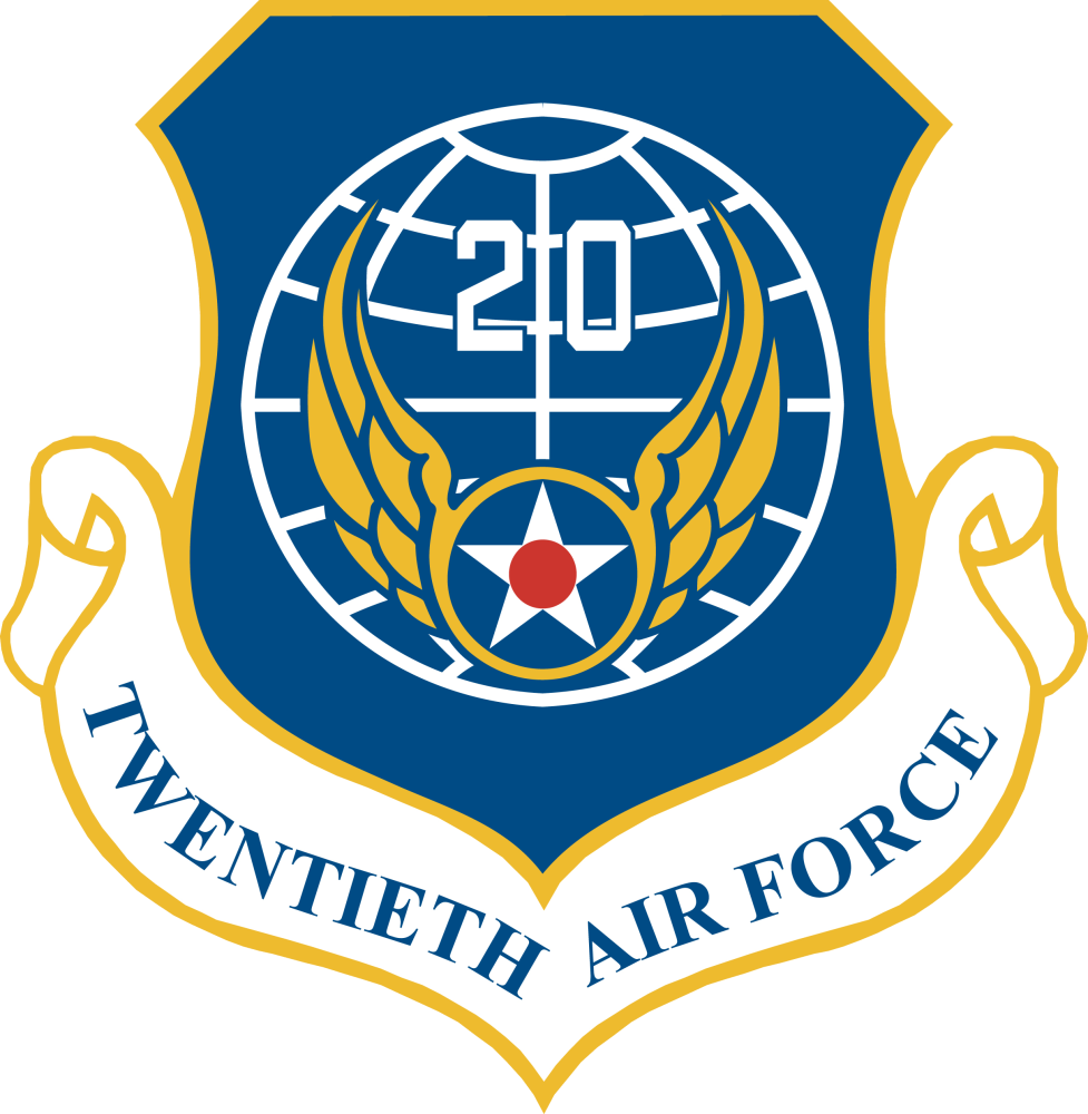 Emblem of the 20th Air Force of the United States Air Force